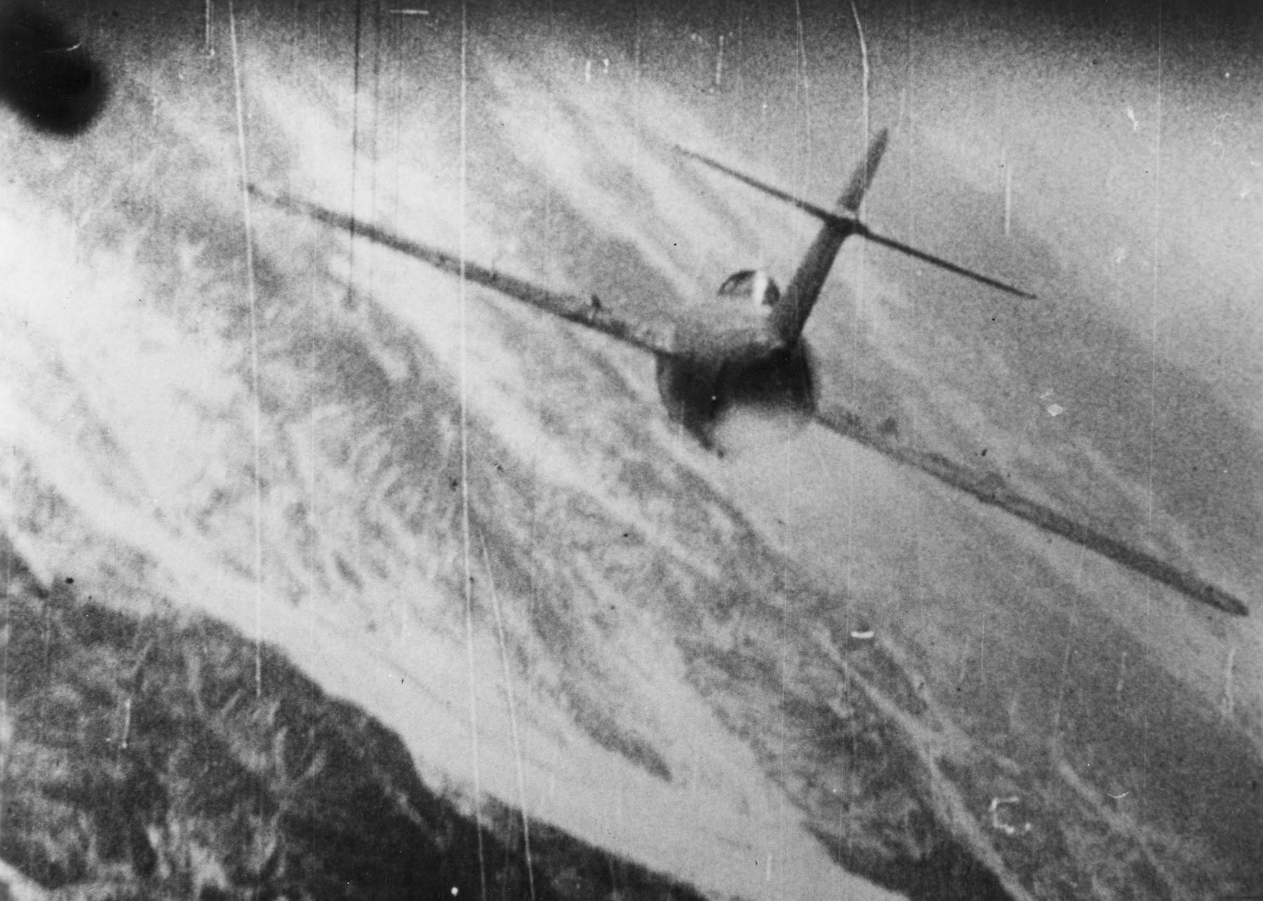 Gun camera photo of a Mikoyan Gurevich MiG-15 being attacked by U.S. Air Force North American F-86 Sabre over Korea in 1952-53, piloted by Capt. Manuel "Pete" Fernandez, 334th Fighter-Interceptor Squadron, 4th Fighter-Interceptor Wing.